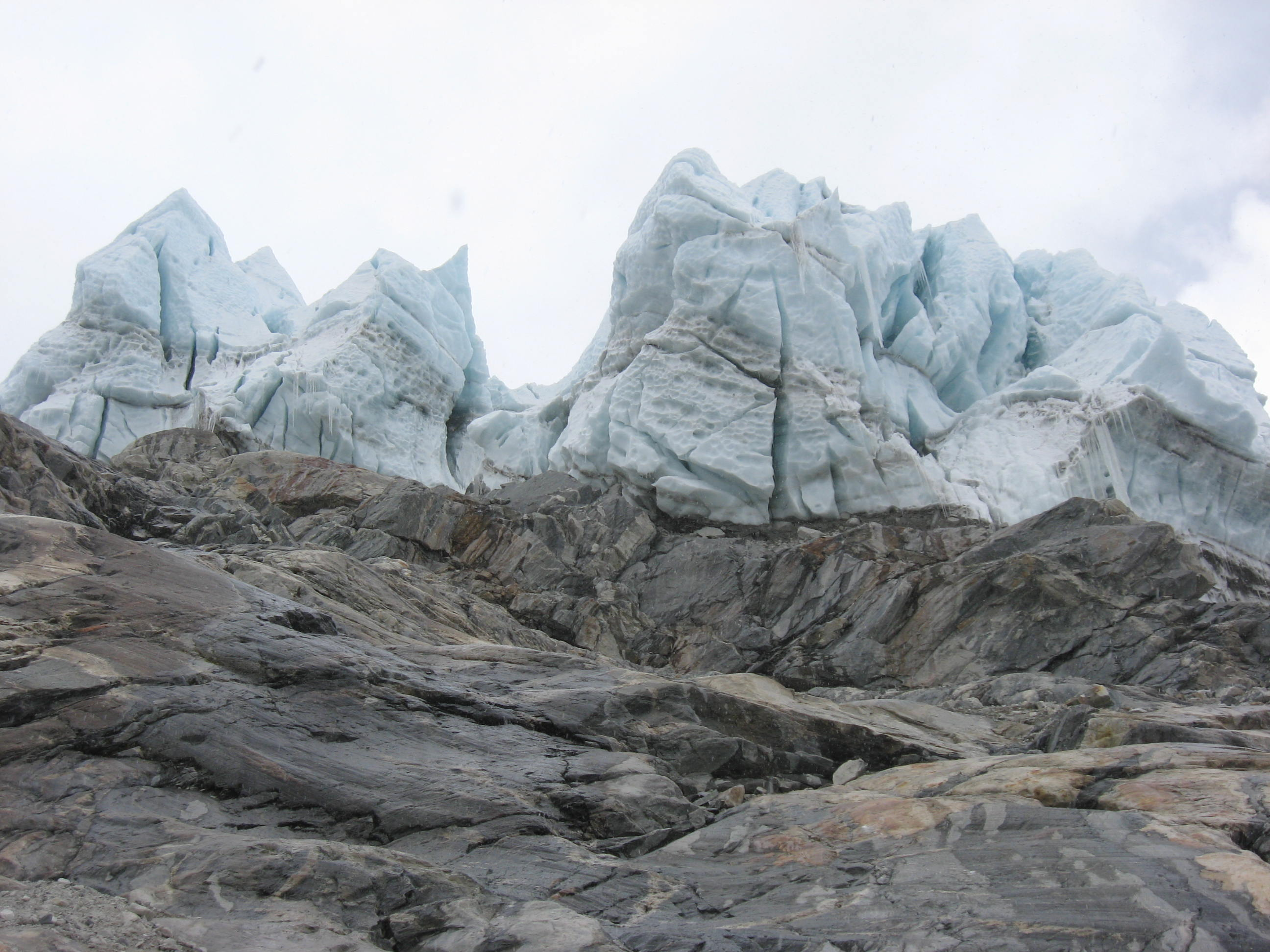 A view of iceberg near Mount Makalu(Elevation:8,463 m (27,766 ft)) नेपाली: मकालु हिमालको समिपमा रहेको हिमशैलको एक मनोरम दृश्य ।